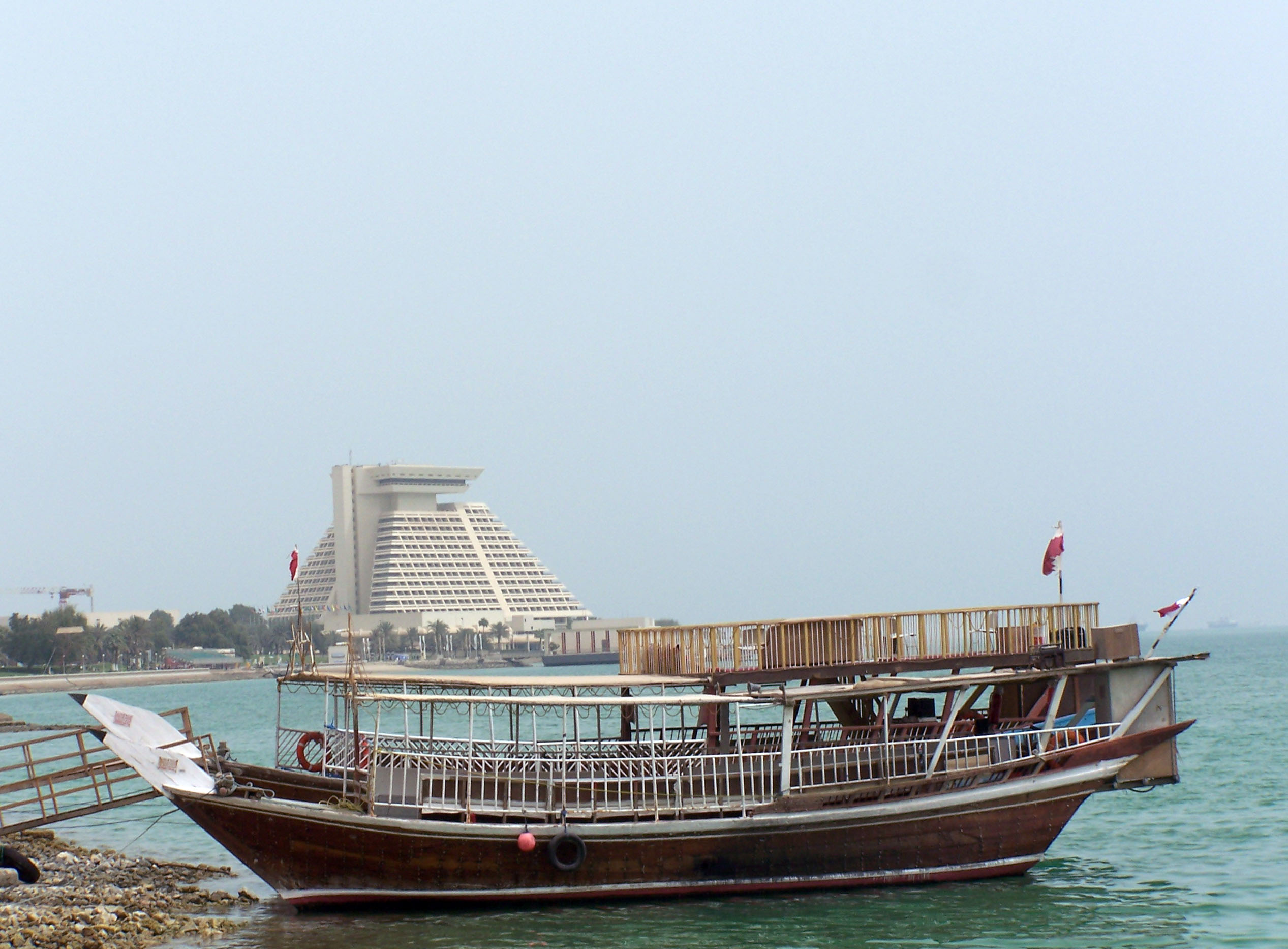 Old boat with the Sheraton hotel in the background in Doha, Qatar